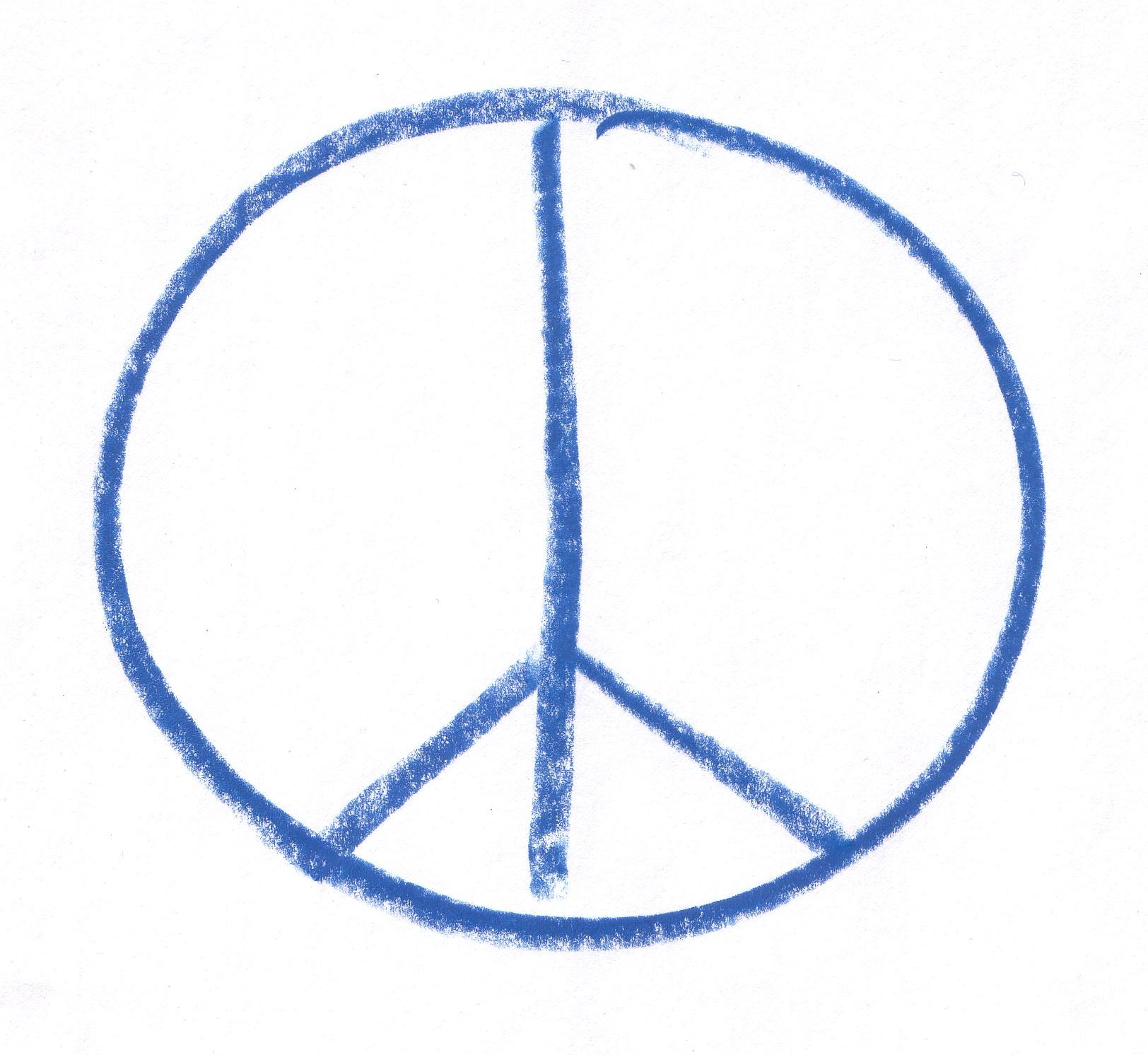 Peace and love